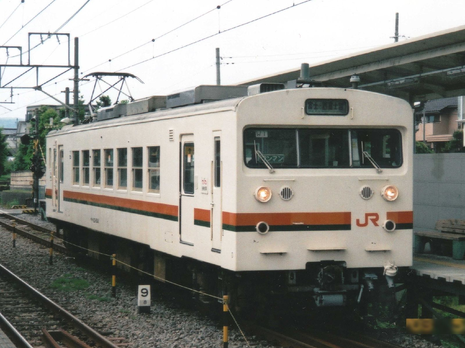 Central Japan Railway Company 123 series EMU at Gendoji Station